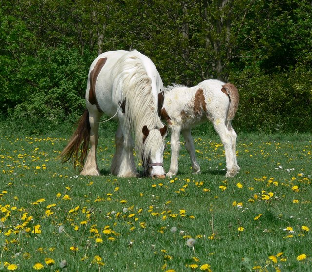 Mother and baby on Aylestone Playing Fields